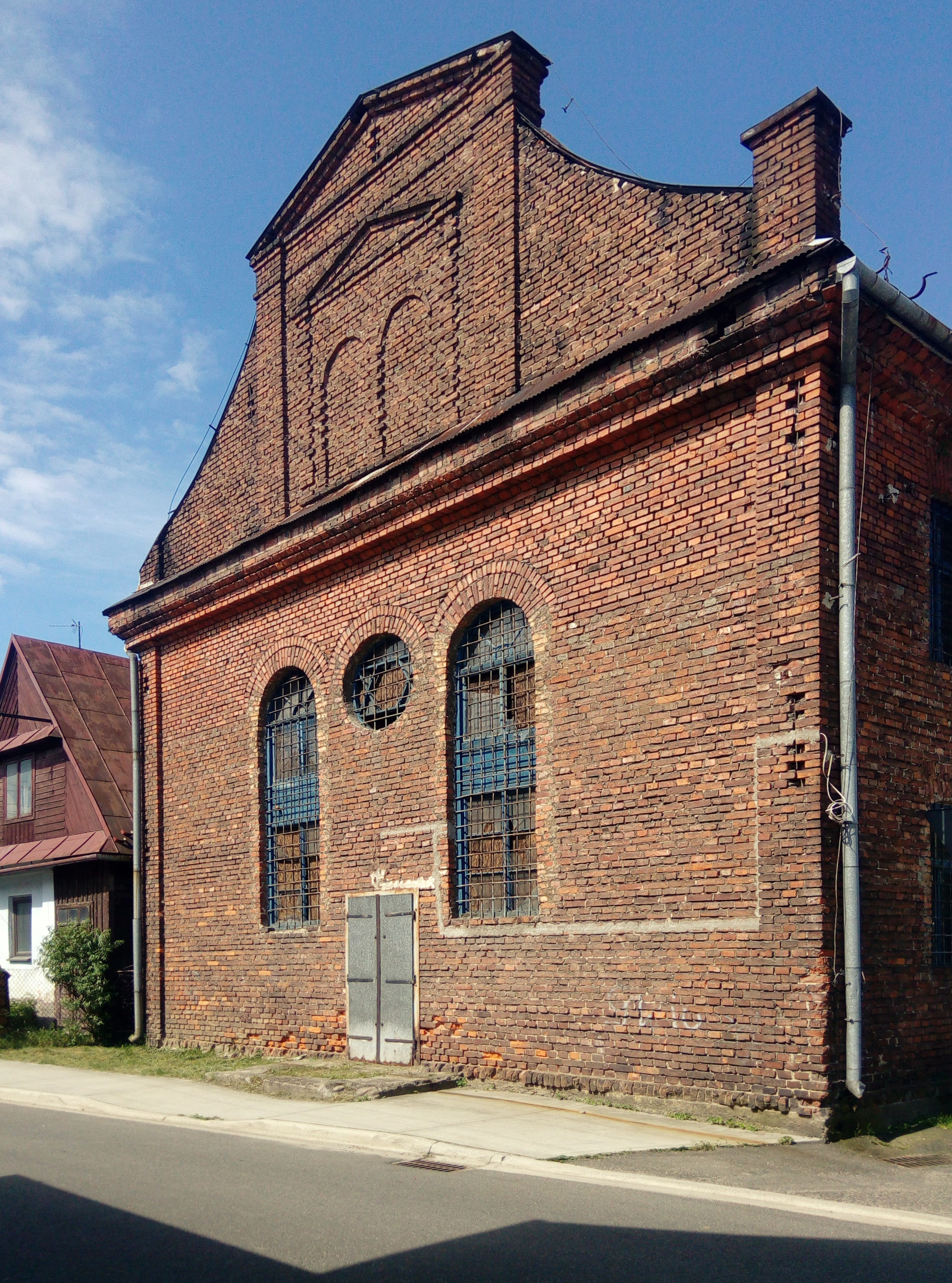 Former synagogue in Czarny Dunajec, Poland.